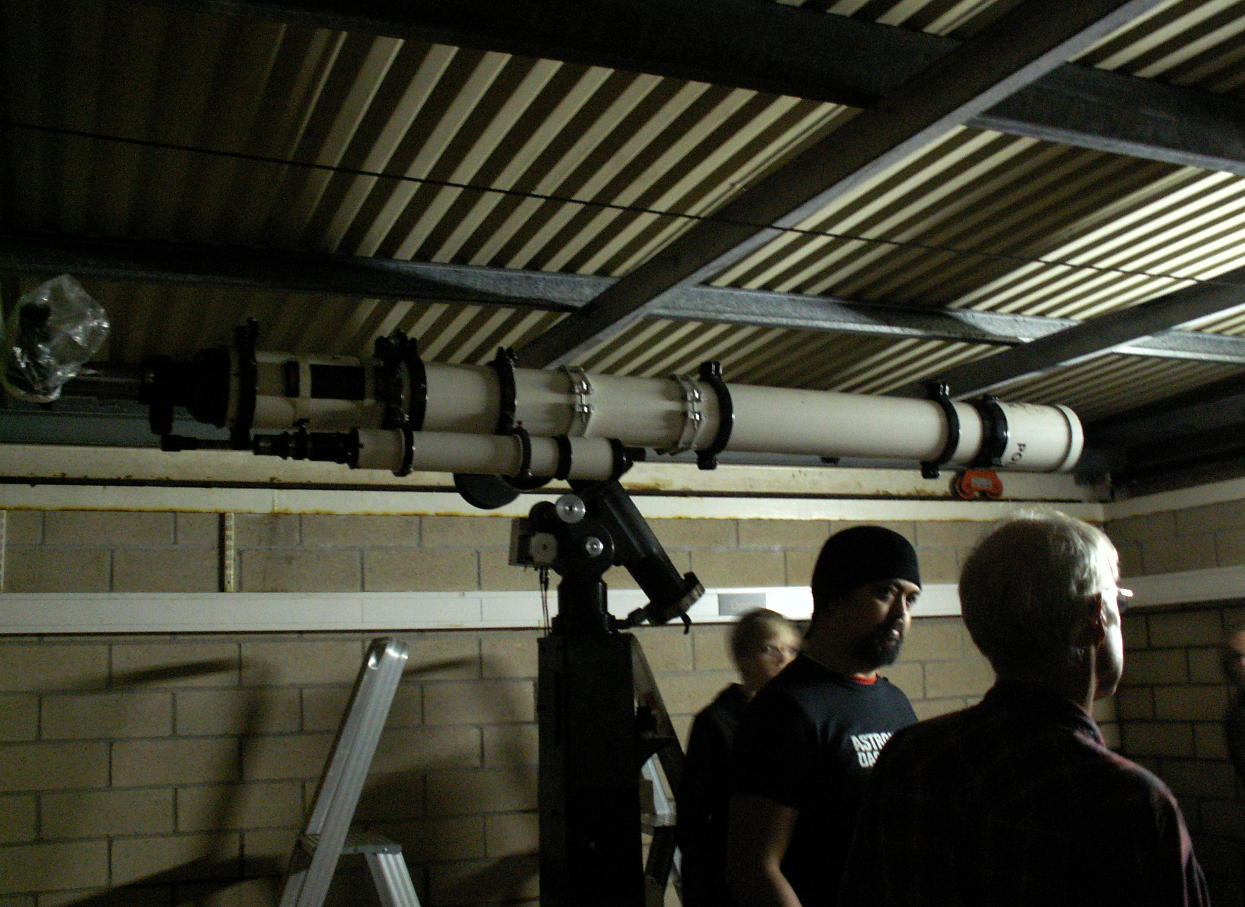 Slottsskogsobservatoriet i Göteborg, på Astronomins dag och natt 2014. Conny Jonsson pratar teleskop och astronomi i östra paviljongen.